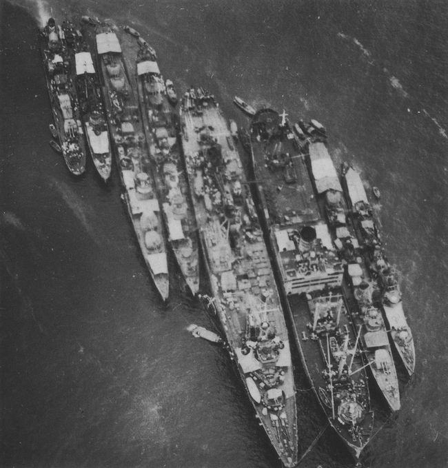 Destroyer Harusame, a minesweeper, destroyer Akizuki, a destroyer, repair ship Akashi, seaplane tender Sanyo Maru, another destroyer, and a patrol boat at Truk, Caroline Islands, Feb 1943